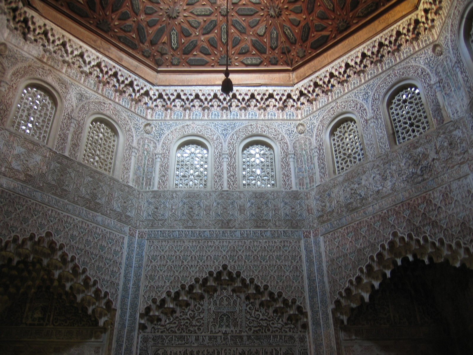 Madrasah of Granada.